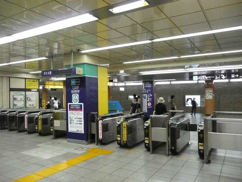 The ticket barriers for transferring between JR East and Tokyo Metro at Nishi-Nippori Station in Tokyo